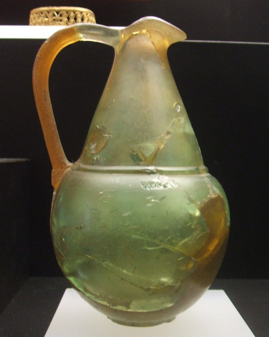 Egyptian glass jar. Part of the so-called Trasure of Aliseda. From Aliseda (Cáceres, Extremadura, Spain). Protohistory and Colonisations in the Iberian Peninsula. Imported due to the Mediterranean commerce.